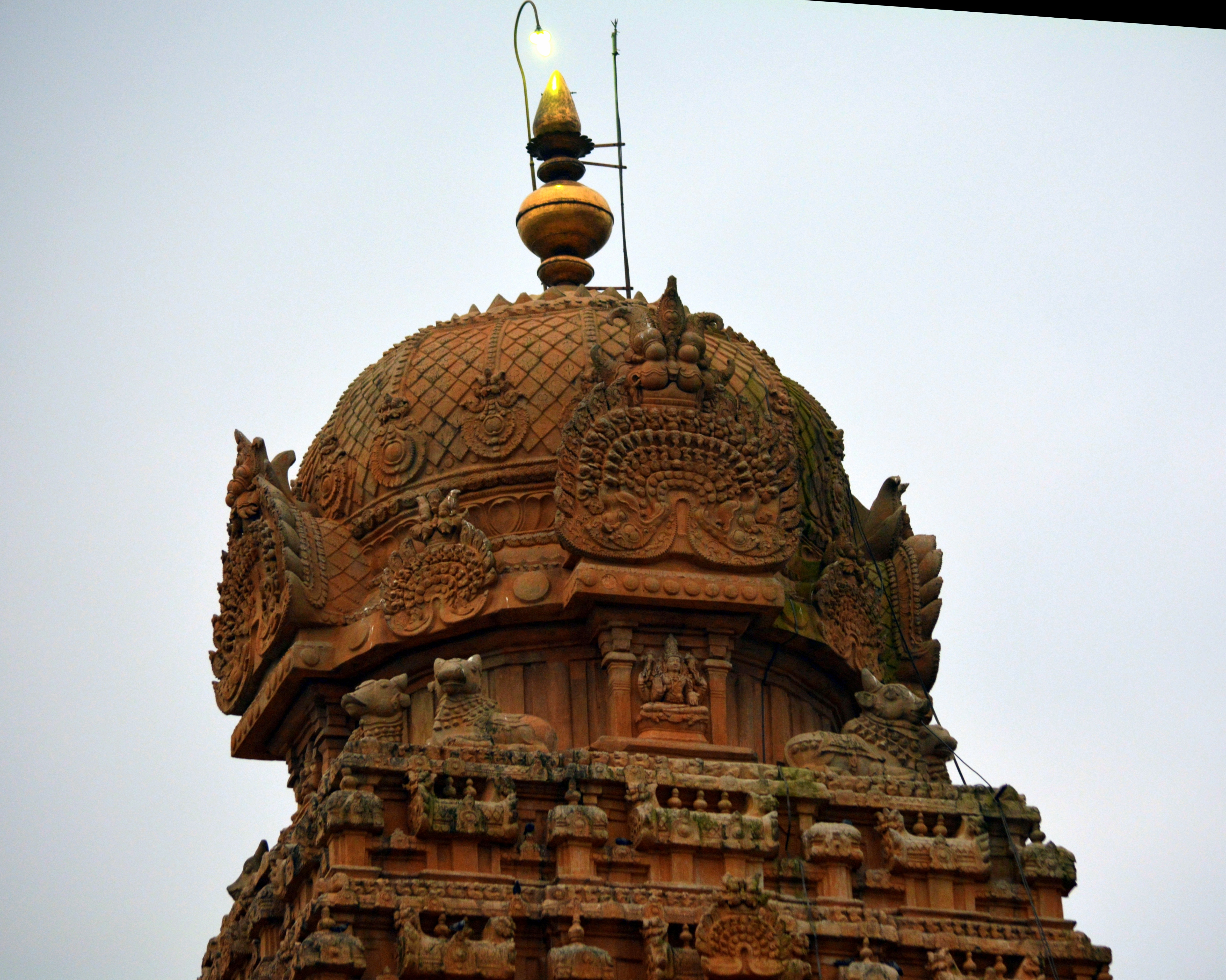 Top blocks of Brihadisvara Temple's Vimana, Thanjavur where the sikhara, a cupolic dome (25 tons), is octagonal and rests on a single block of granite, weighing 80 tons, It is the largest monolith placed on a towering structure in the world.